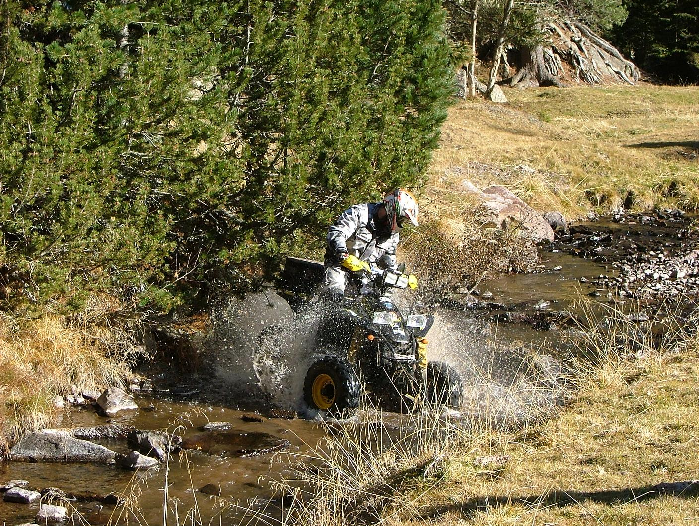 Polaris Scrambler